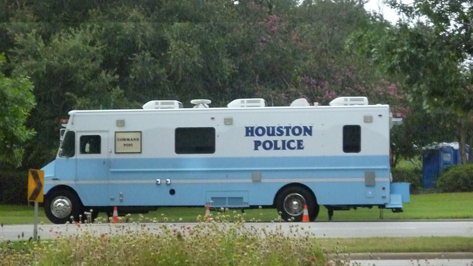 Houston Police Department Mobile Command Post